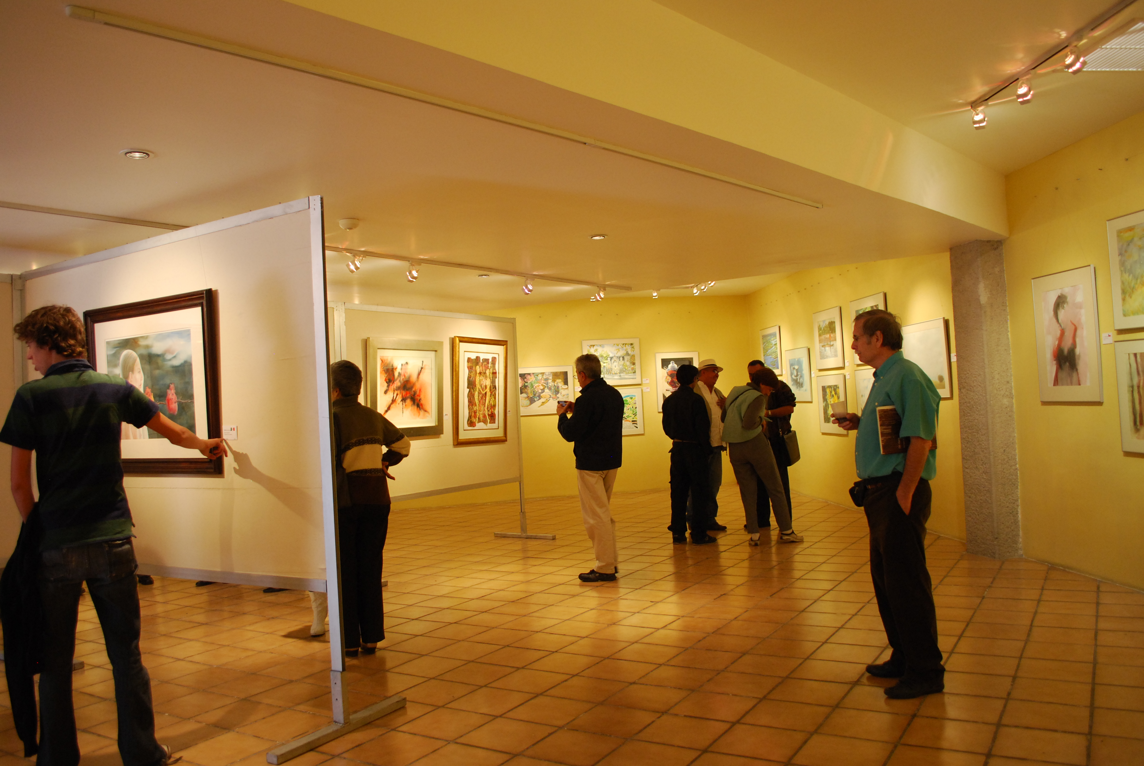 Visitors looking at entries at the Bienenial Internacional exhibition of watercolors at the Museo Nacional de Acuarela, in Coyoacan, Mexico City